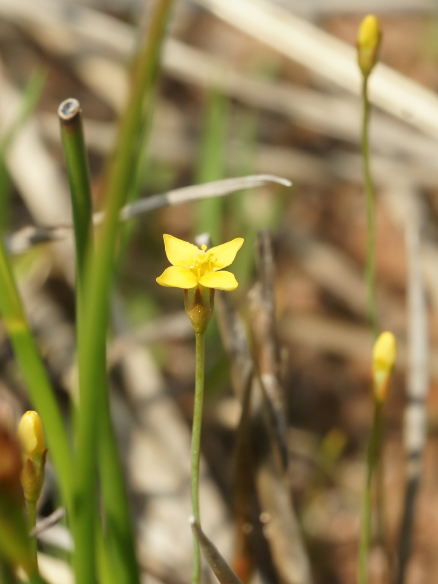 Yellow centaury at Bois du Rouquan, Var, France